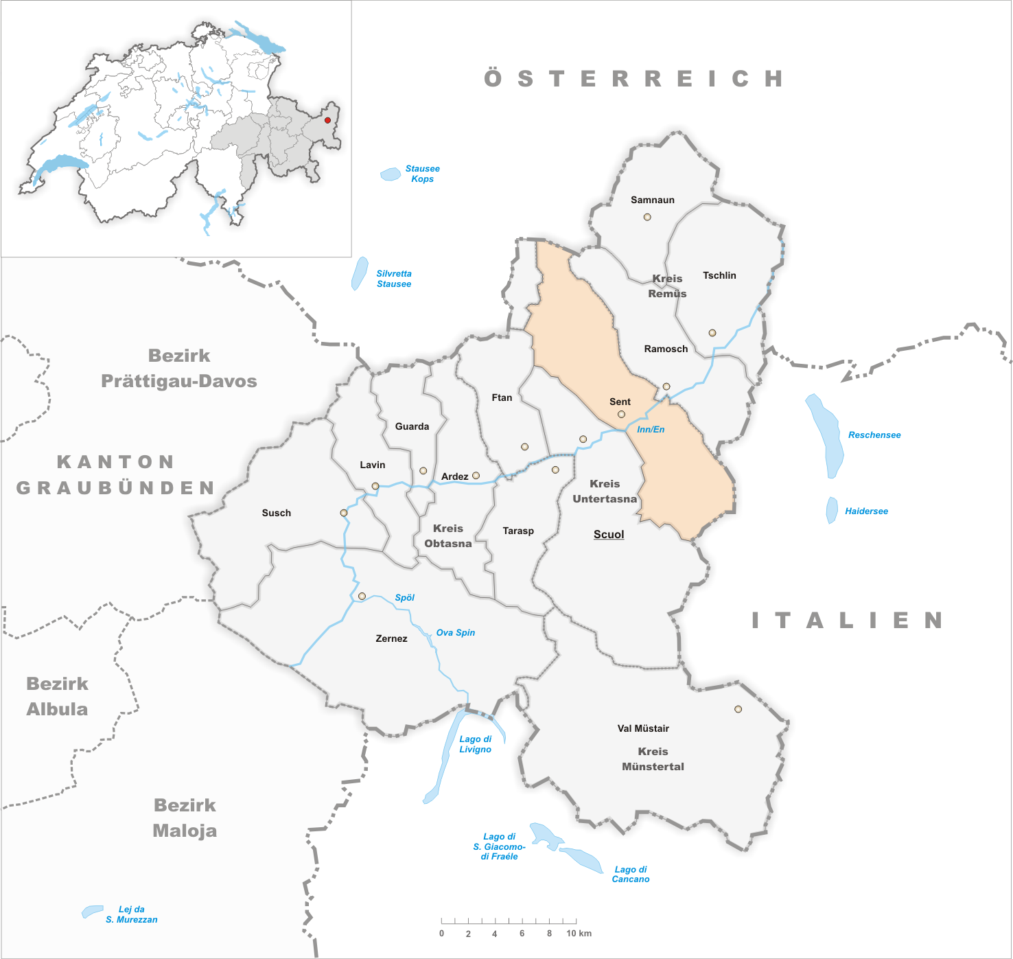 Municipality Sent